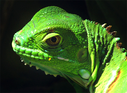 Iguana head